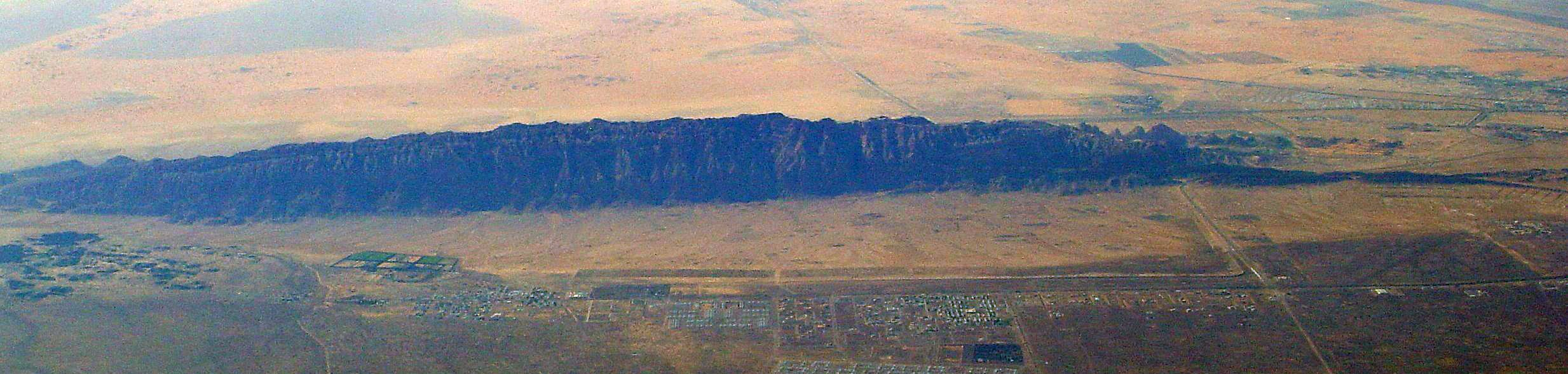 صورة جوية للجبل حفيت من الشرق.Aerial picture of Jebel Hafeet from the east.